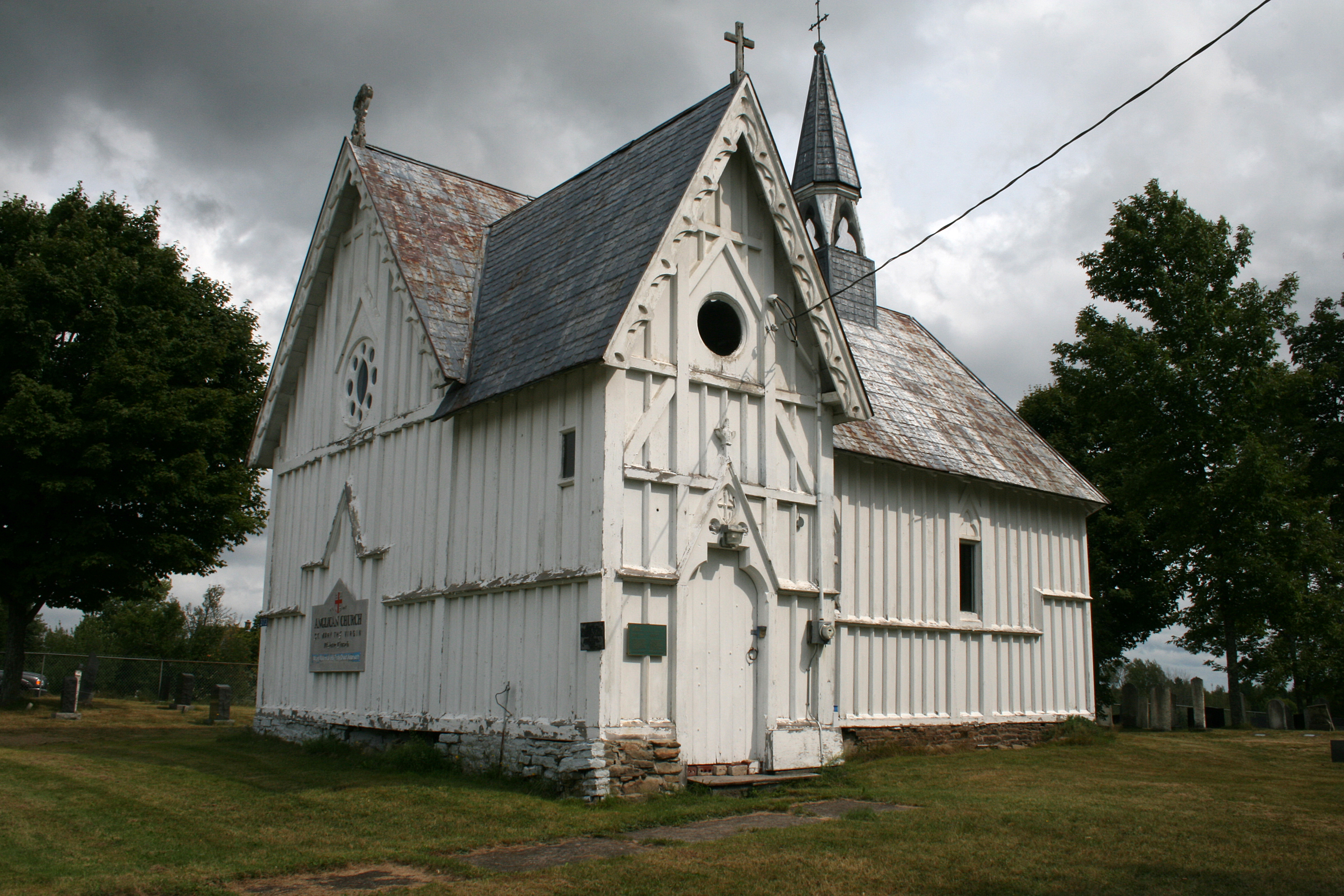 The Church of St. Mary the Virgin